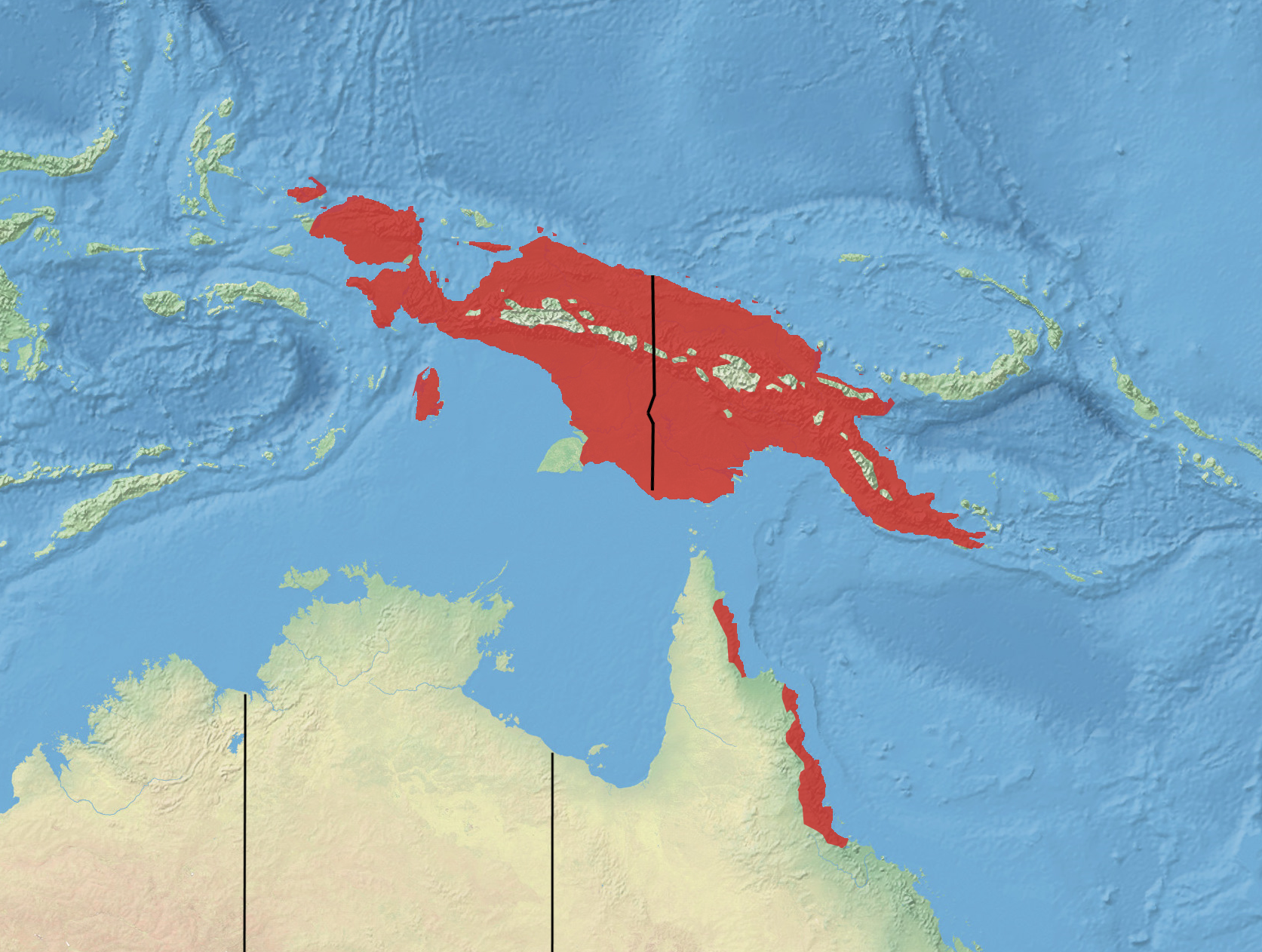 The Distribution of the Striped Possum